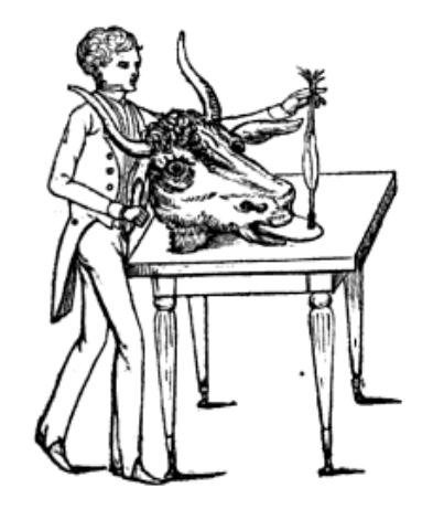 Giovanni Aldini demonstrating that electricity can be obtained from an Ox head